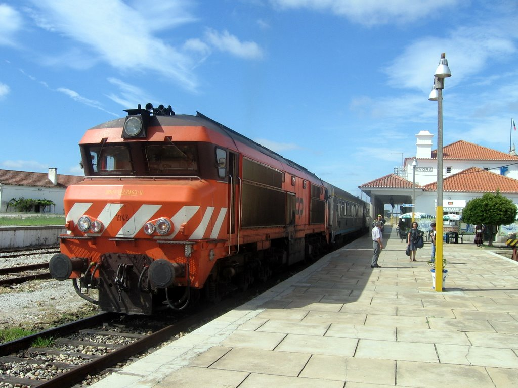 Évora is a beautiful town just over 1 hours from Lisbon. The train journey might not be the fastest option but nevertheless it makes a pleasant trip.